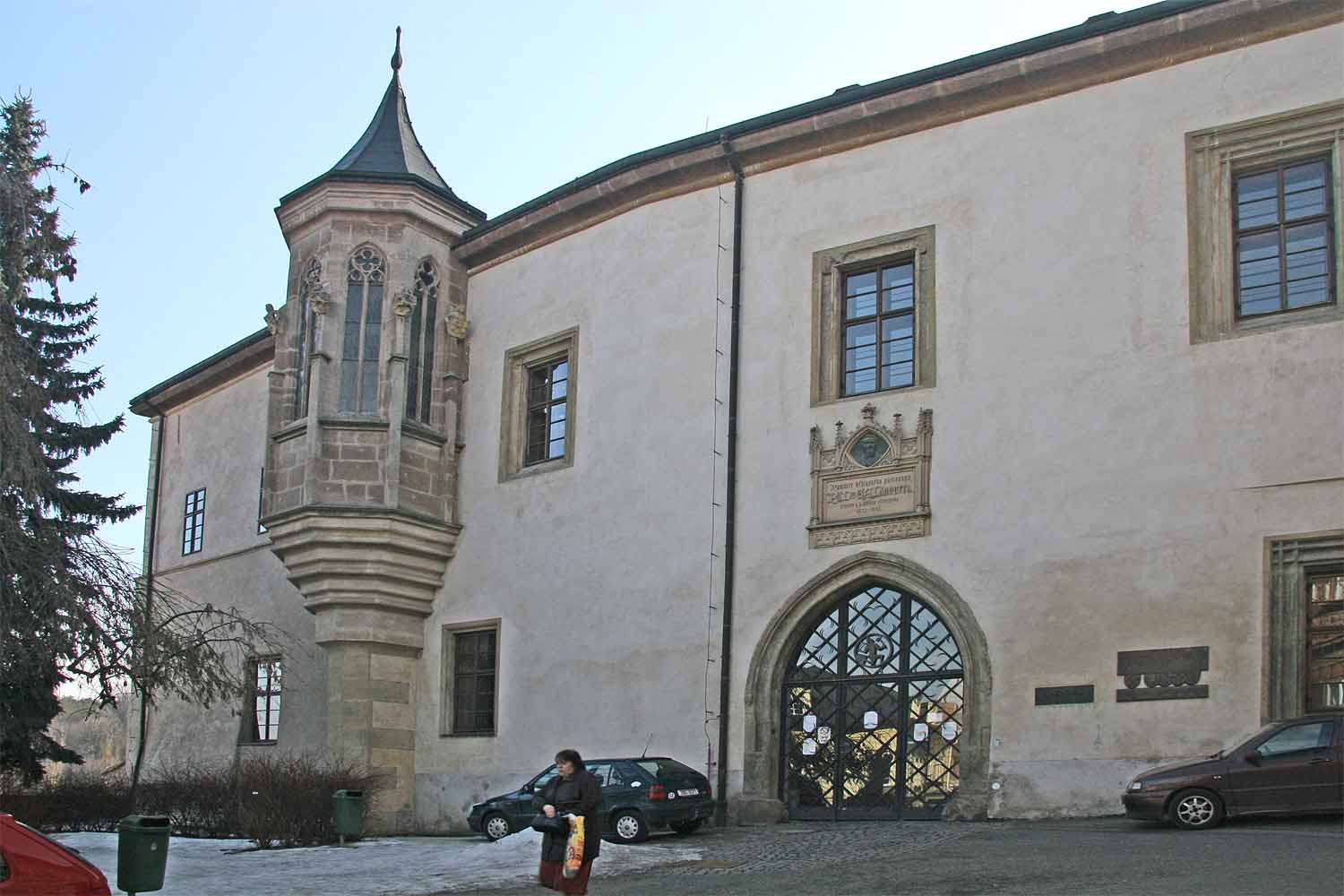 Hrádek - Museum of Silver in Kutná Hora, Czech Republic.